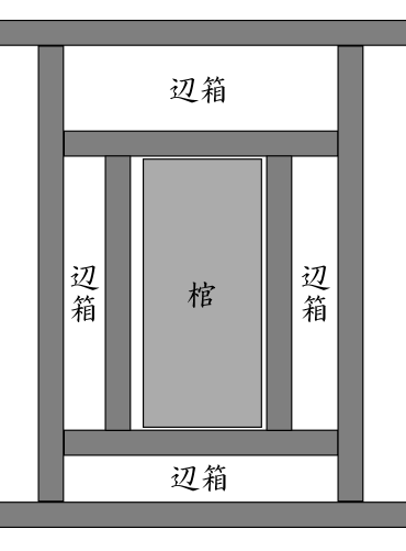 Rough top view of Mawangdui Tomb 1 guanguo (马王堆汉墓 一号墓 棺槨)